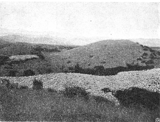 Kurgans near Khojaly.